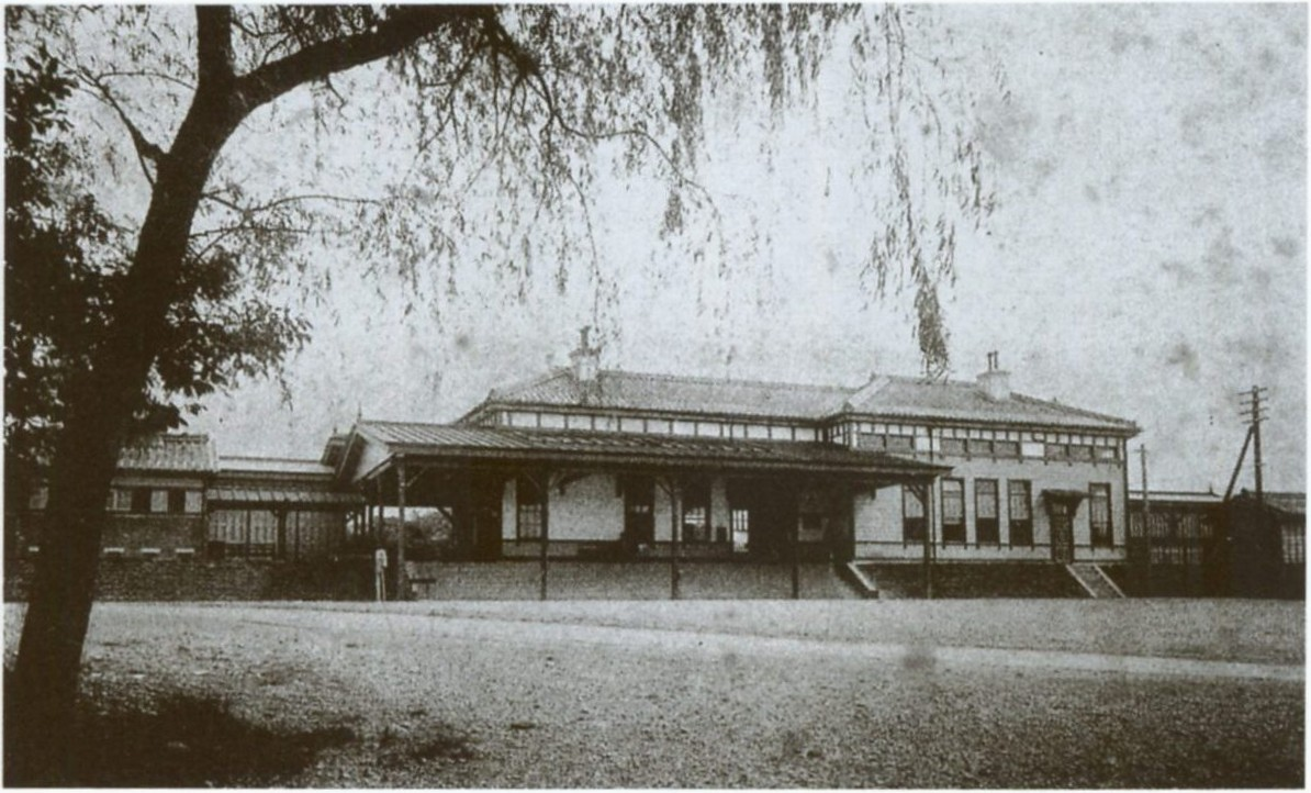 Omura Station